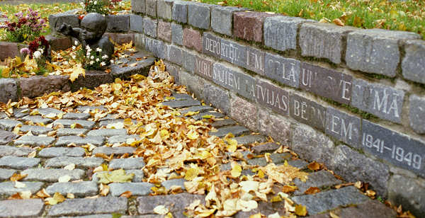 Taken October, 2004, Rīga, Latvia Uploaded by image author, Pēters J. Vecrumba Memorial TO LATVIA'S DEPORTED CHILDREN WHO DIED ON THE ROAD TO, AND IN, THE UNKNOWN 1941-1949 Sculptor: Dzintra Regīna Jansone